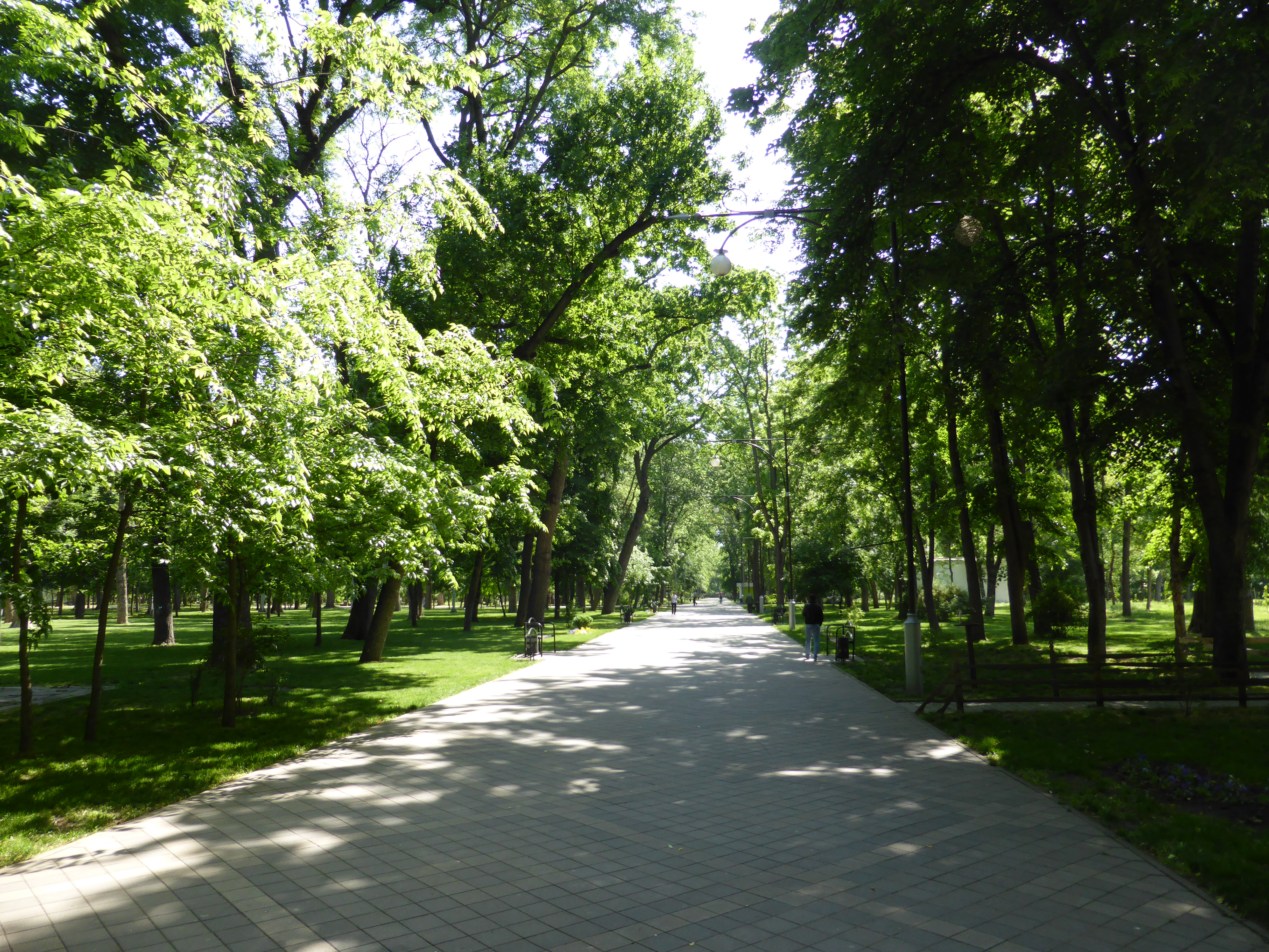 Grove Chistyakov